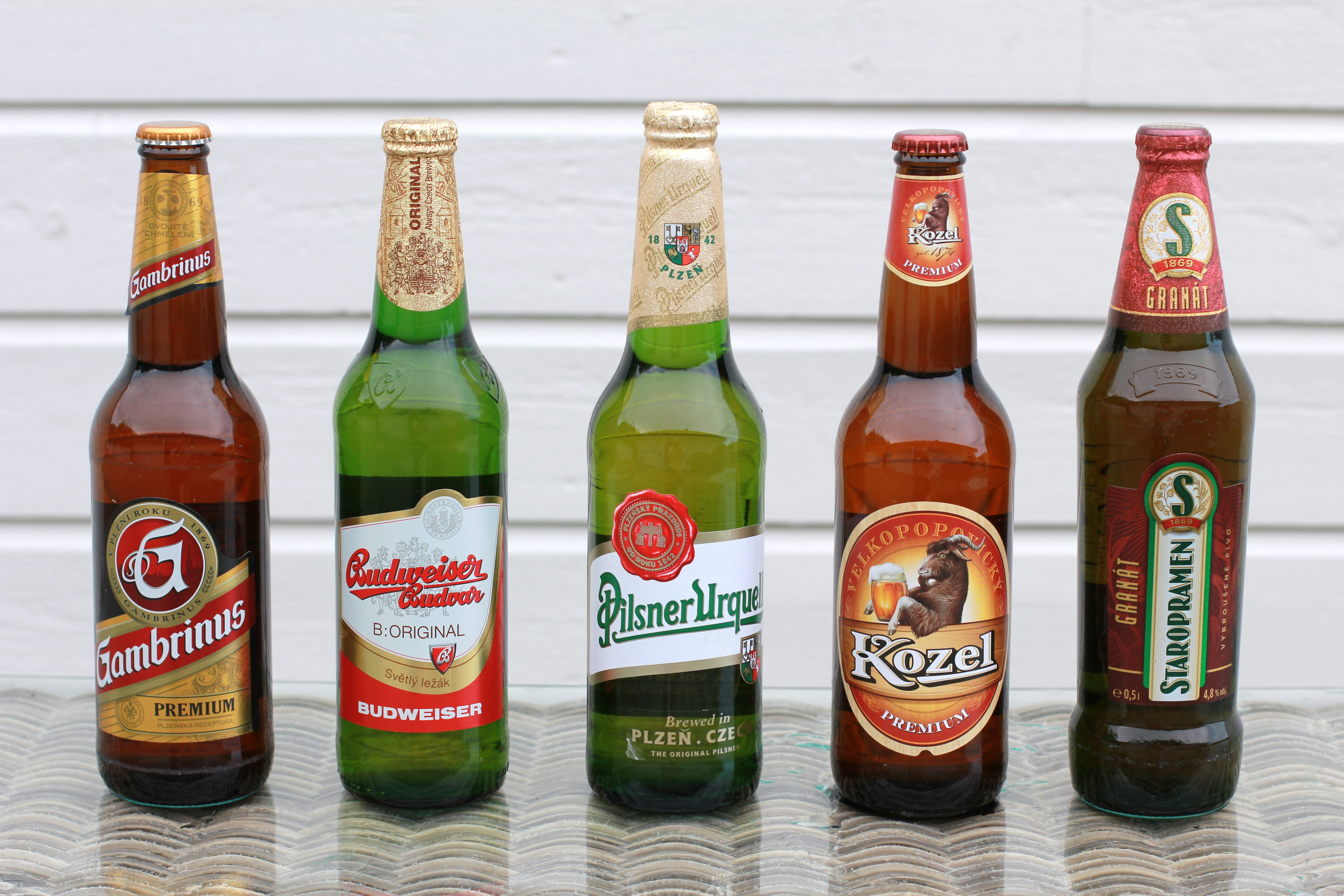 Czech beer